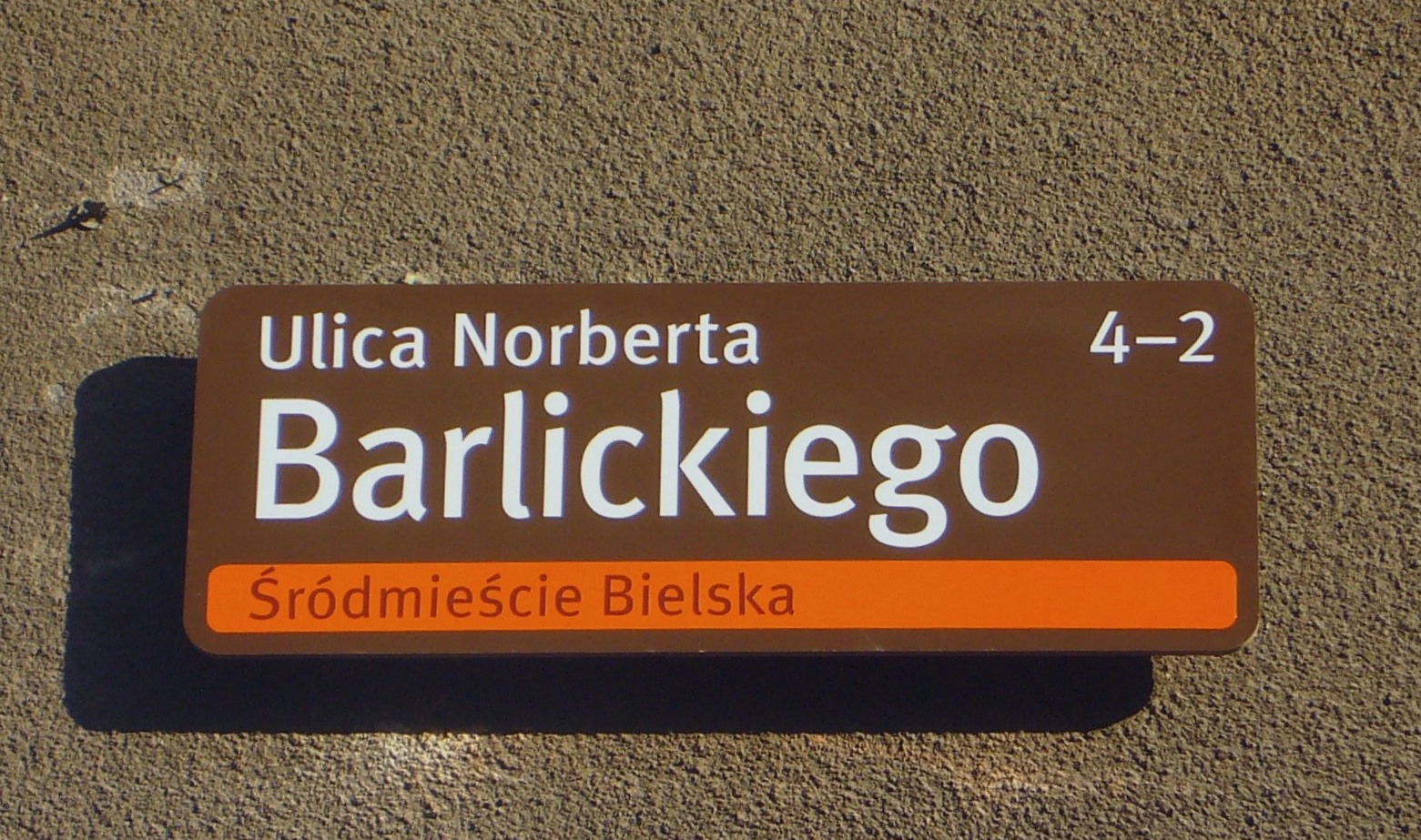 Typical street sign in Bielsko-Biała (2-4 Norbert Barlicki Street).